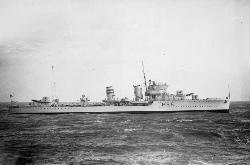 Photograph of British destroyer HMS Hostile, underway on completion.